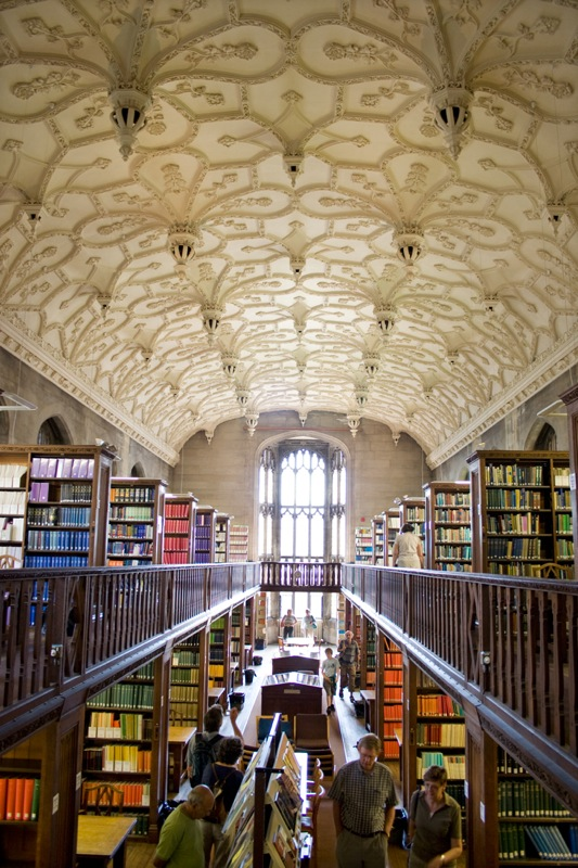 Flikr photo of Wills Memorial Library. Released under CC Attribution 2.0 The photo was taken by Flikr user millamark and is abbributable to that Flikr user